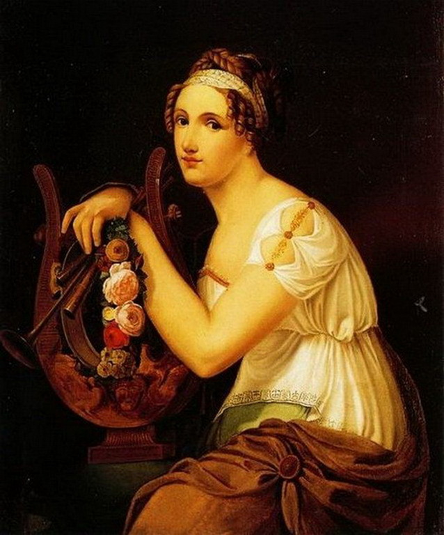 Muse Euterpe